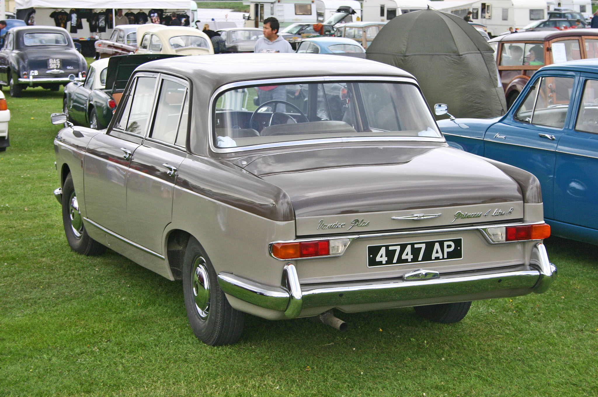 De-finned and modernised tail of the Vanden Plas Princess 4-litre R